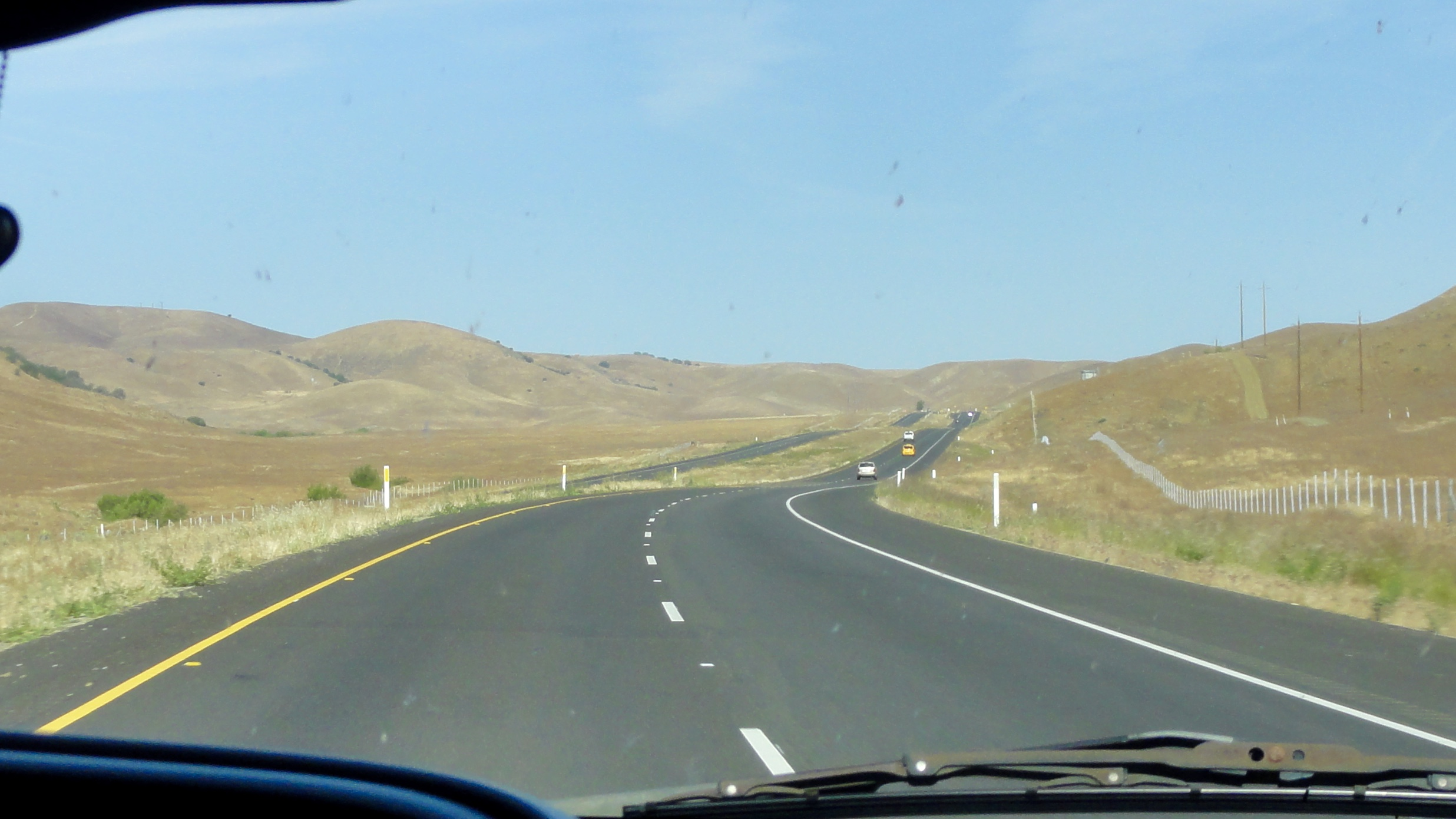 The summit of Polonio Pass, as seen from CA 46.